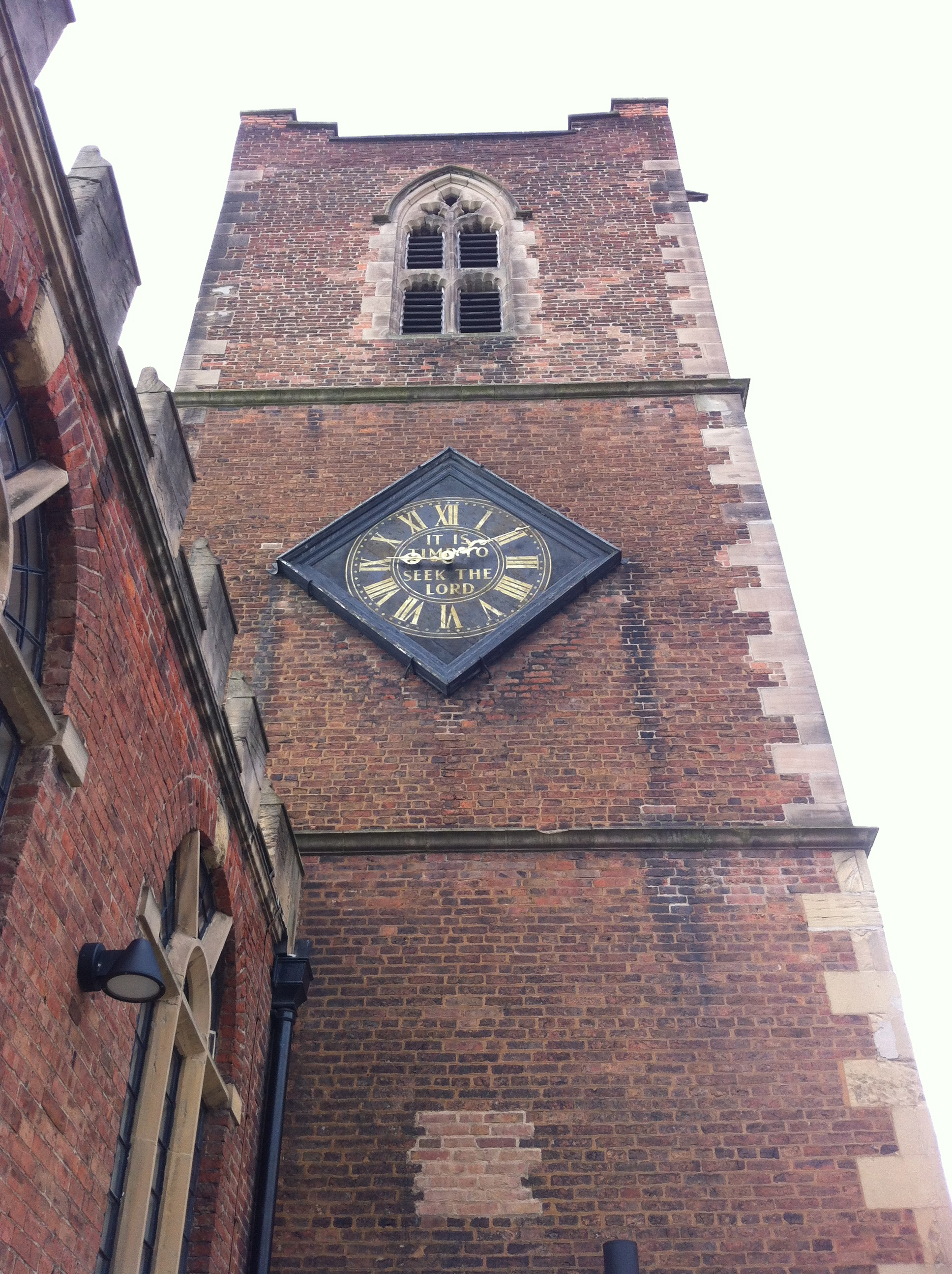 The tower of St Nicholas' Church, Nottingham showing the clock face